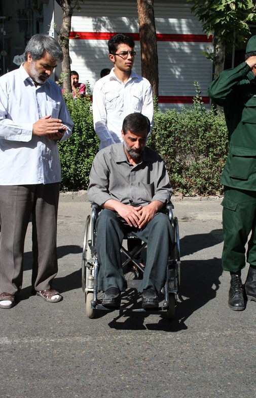 Veteran-Head down-Wheelchair-Nishapur